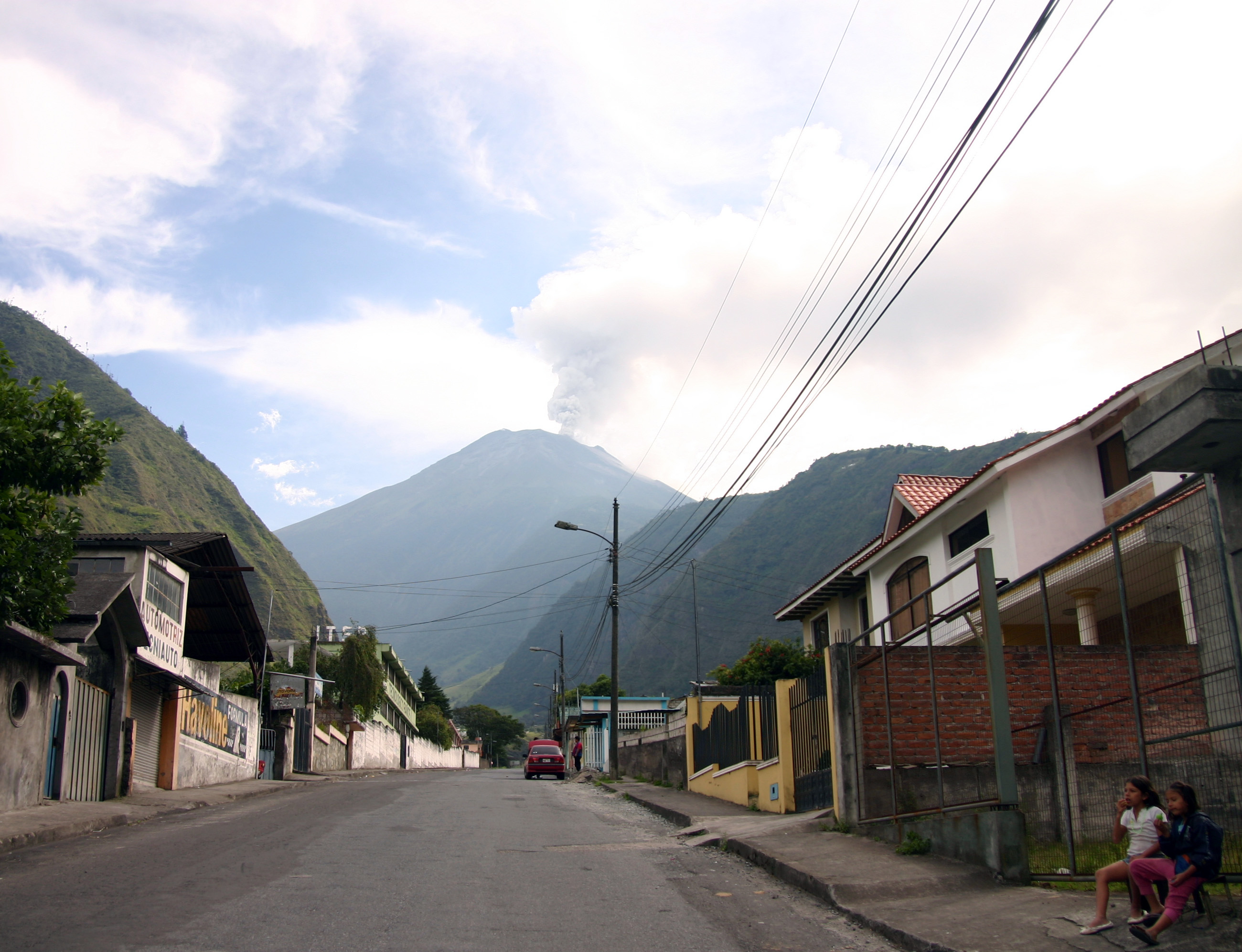 Active Tungurahua above Baños de Agua Santa, Ecuador. January 2010.